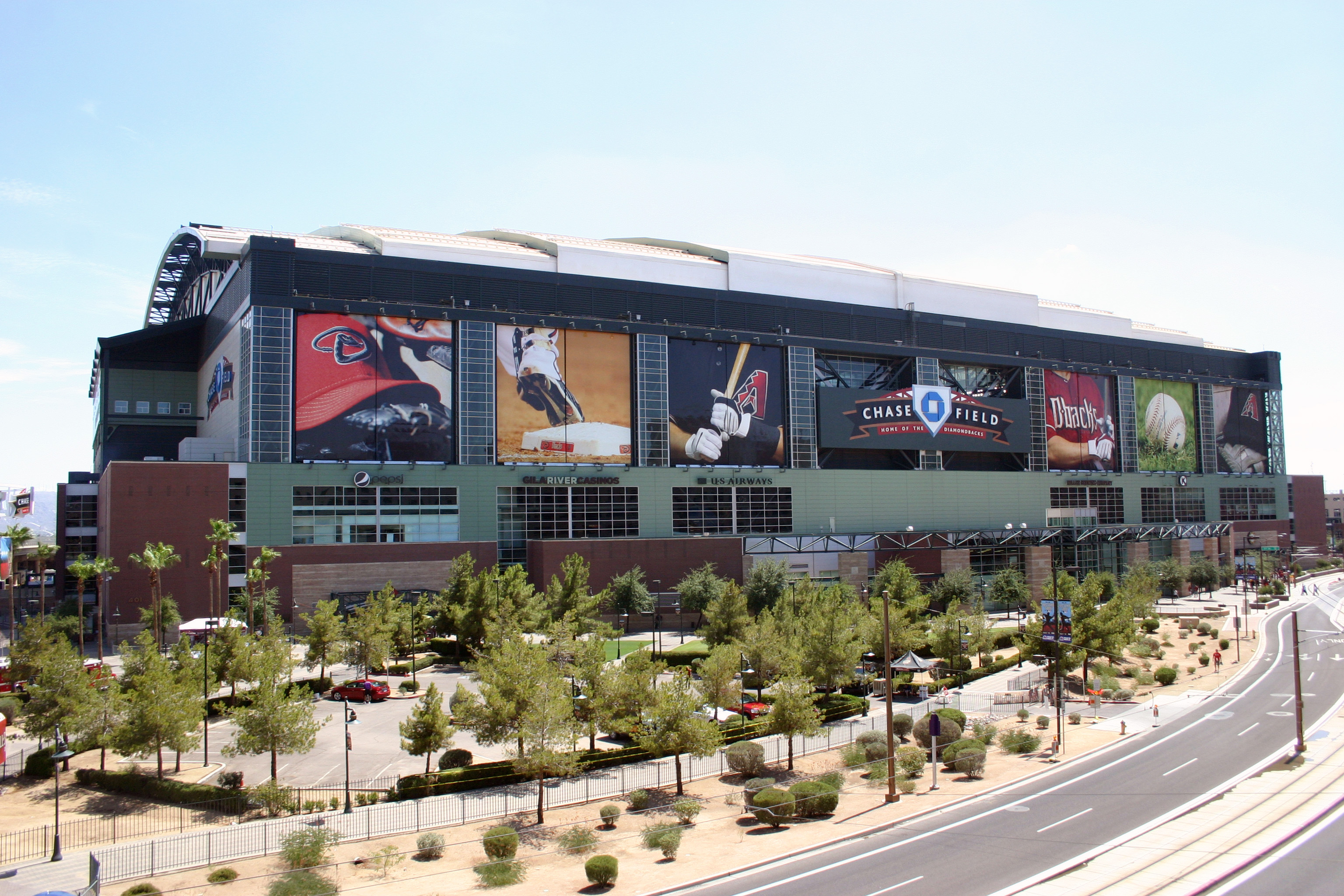 The outside of Chase Field